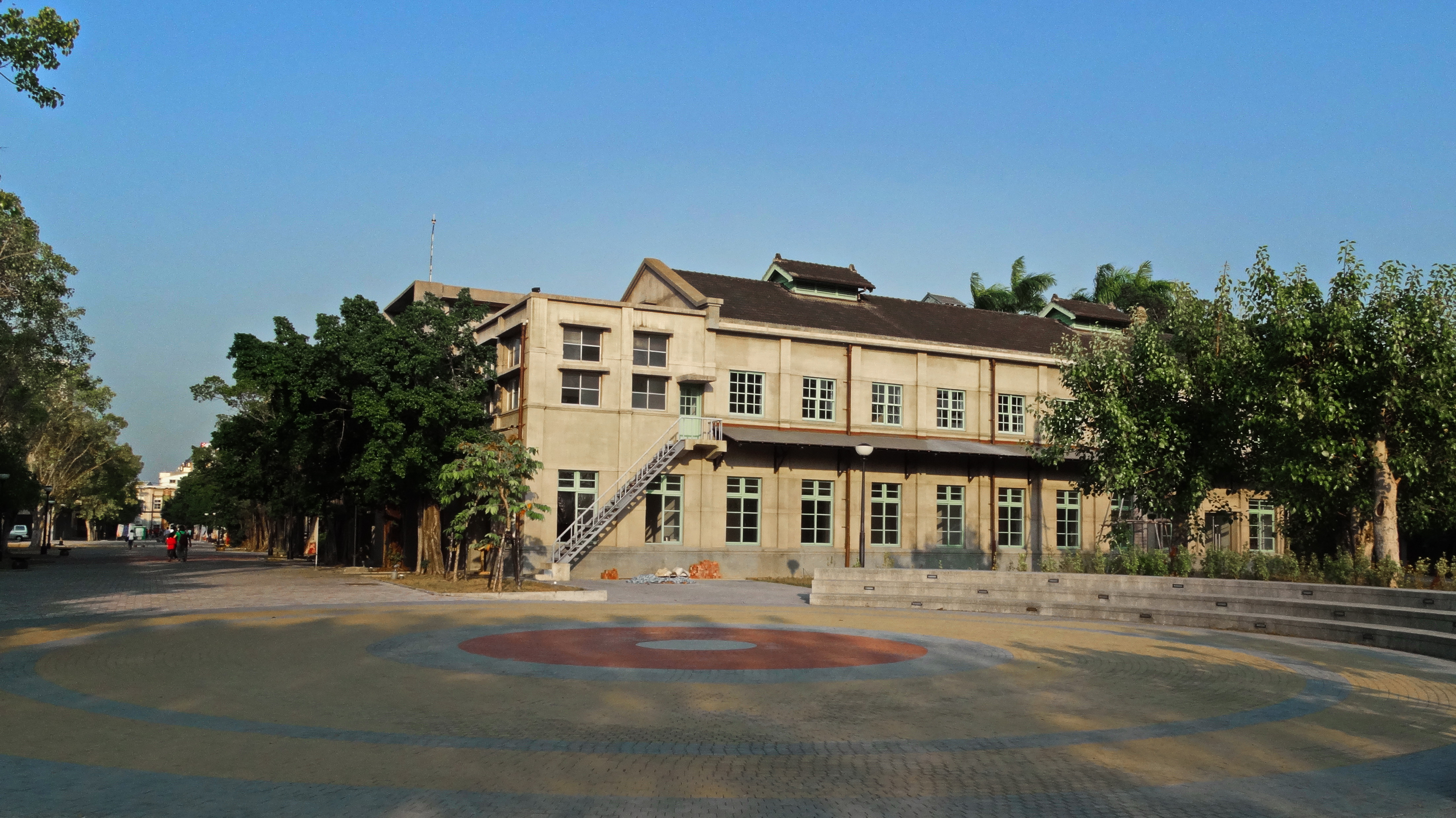 Chiayi Cultural and Creative Industries Park, Former Chiayi Brewery, Chiayi City, Taiwan.